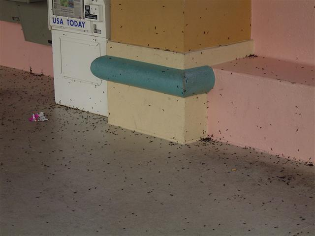 My Photovfbv mn